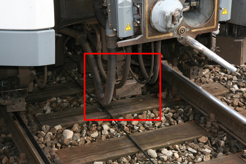 An antenna for Linienzugbeeinflussung, a railway signalling system at an S-Bahn car in Munich (DB class 423)